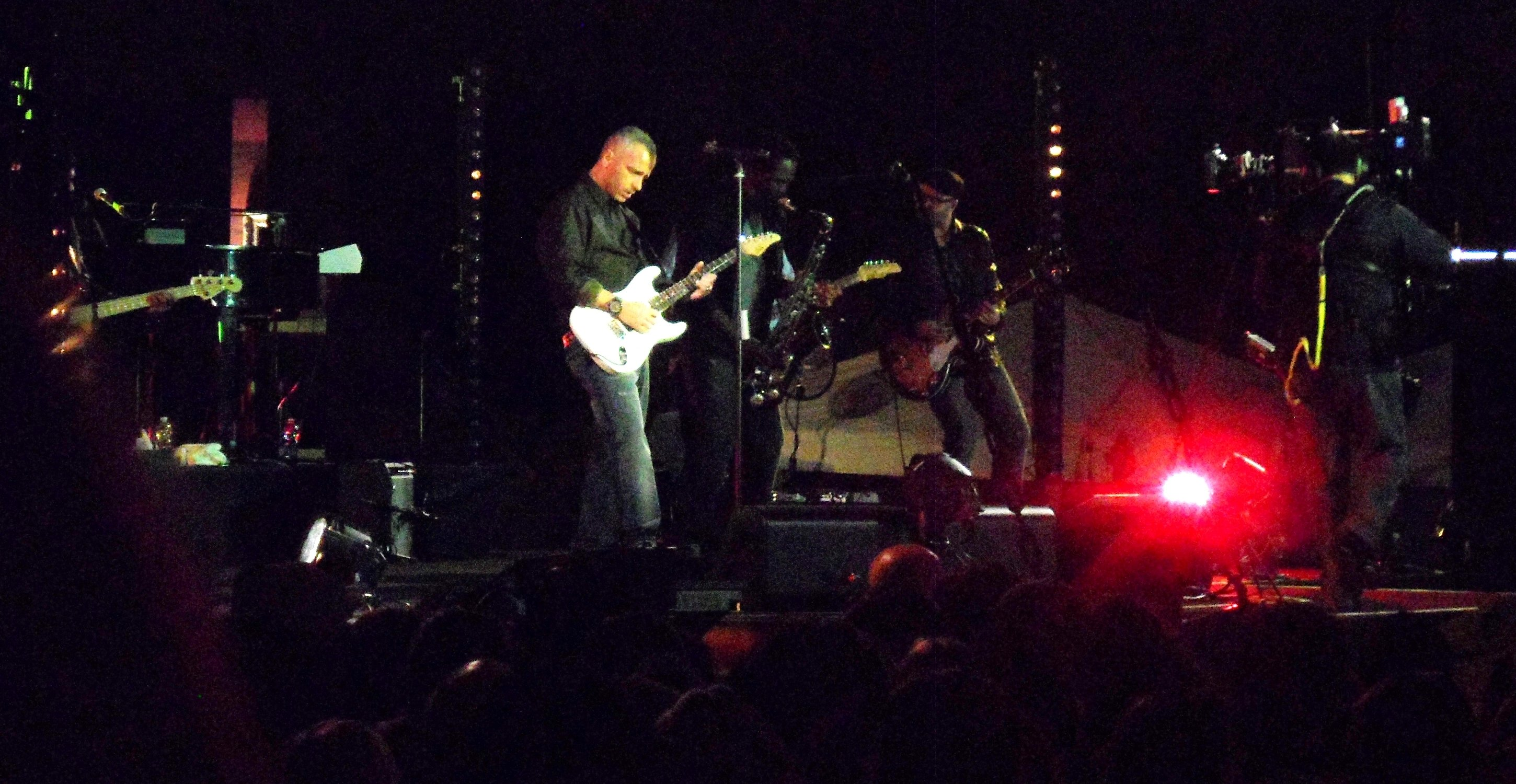 Eros Ramazzotti at presentation of album Noi in Cinecitta.